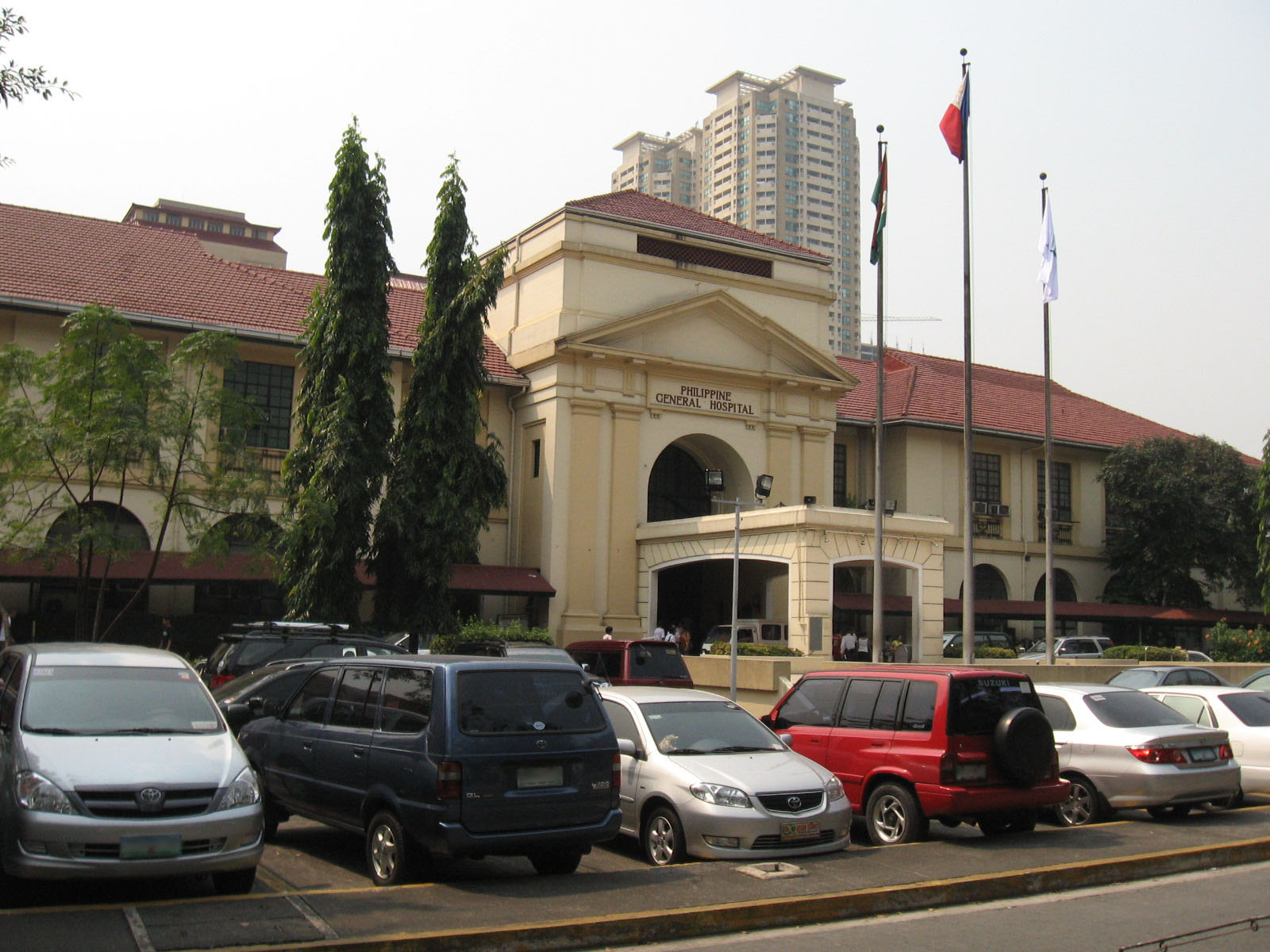 Entrance to the Philippine General Hospital